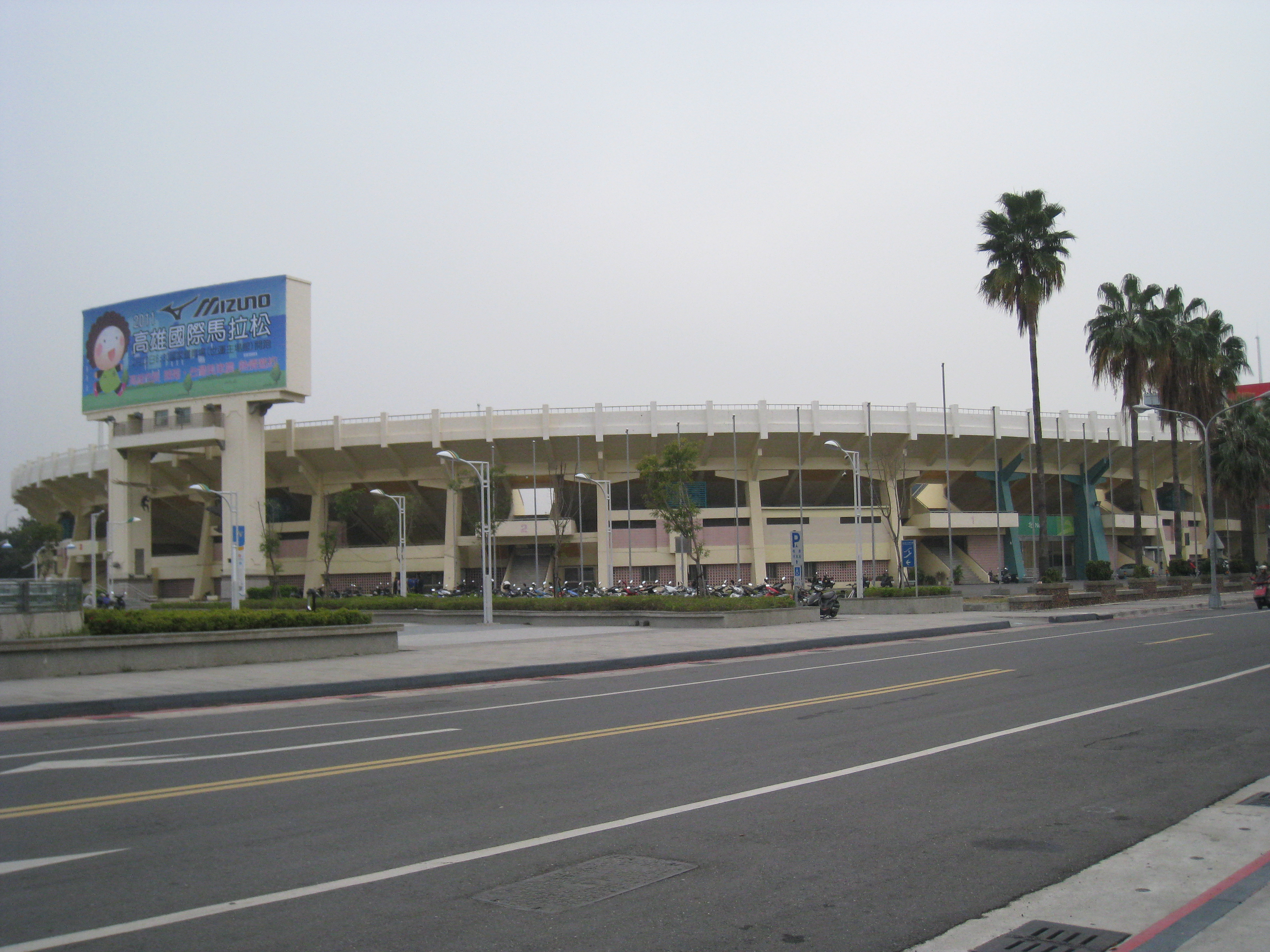 Chungcheng Stadium, Lingya District, Kaohsiung City, Taiwan